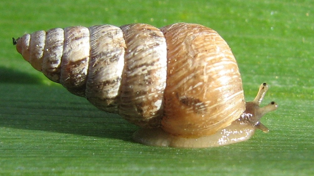 Cochlicella barbara from New South Wales in Australia.